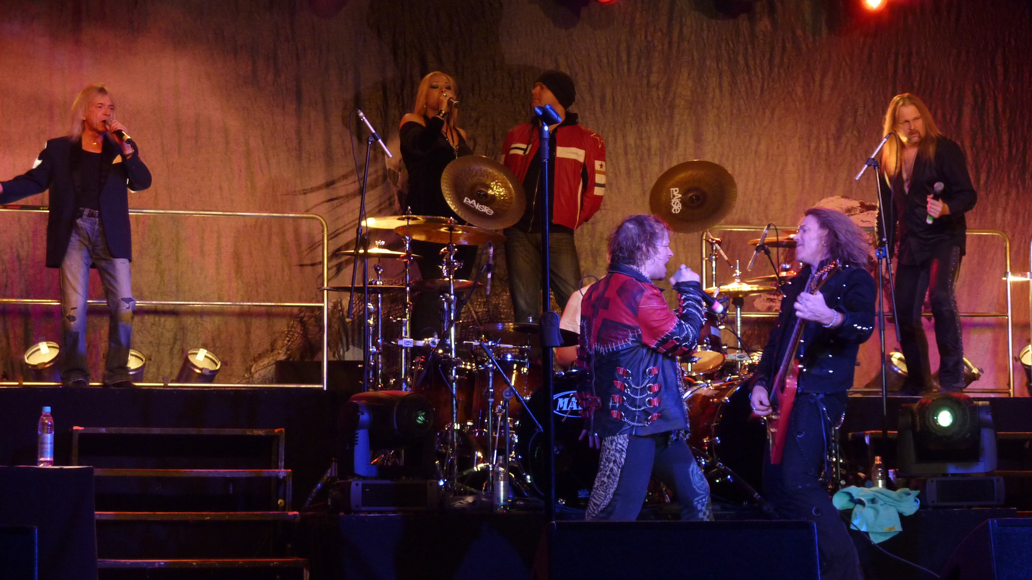 Avantasia in Kaufberen, Germany, 2010